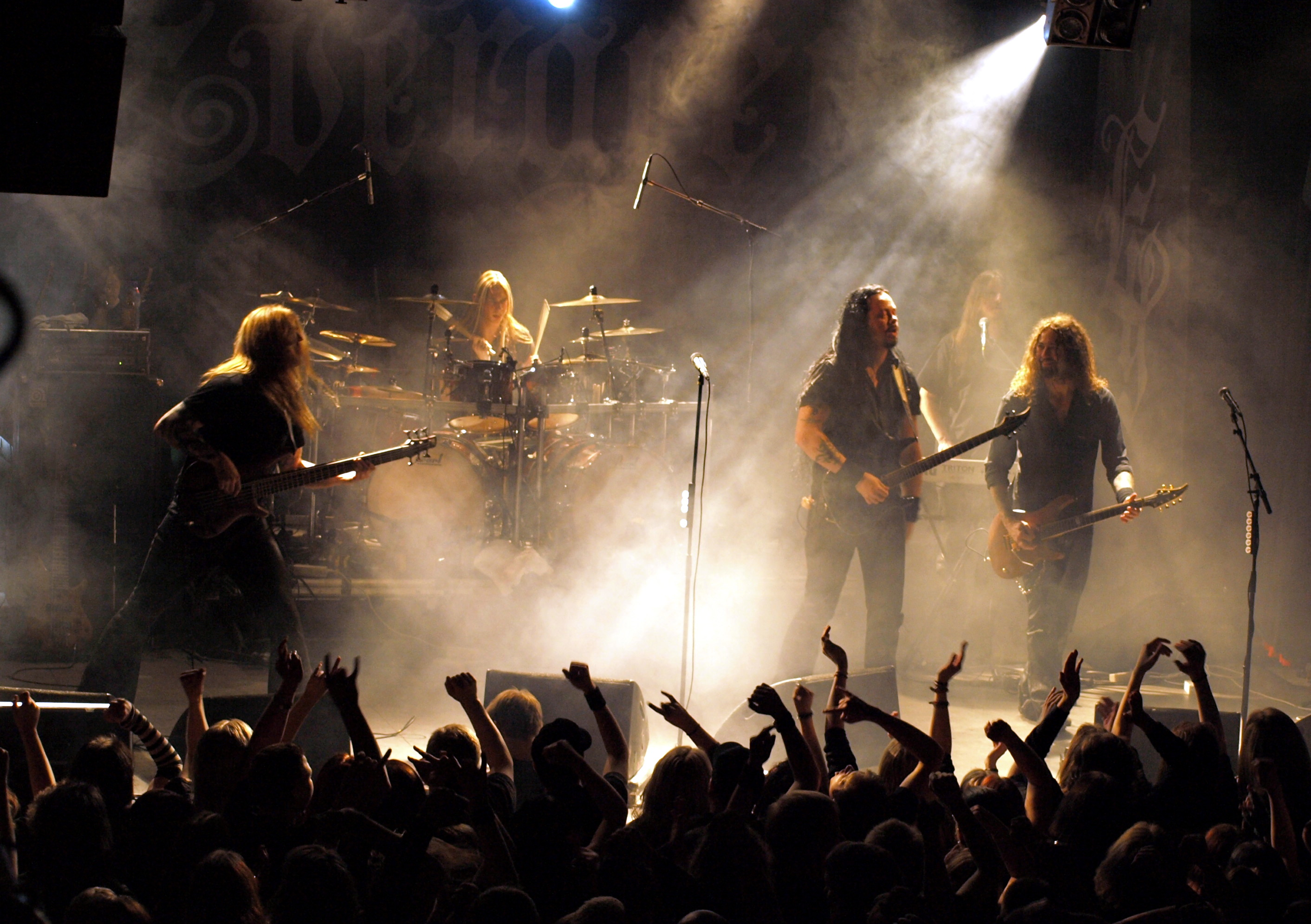 Swedish progressive metal band Evergrey live at Nosturi, Helsinki